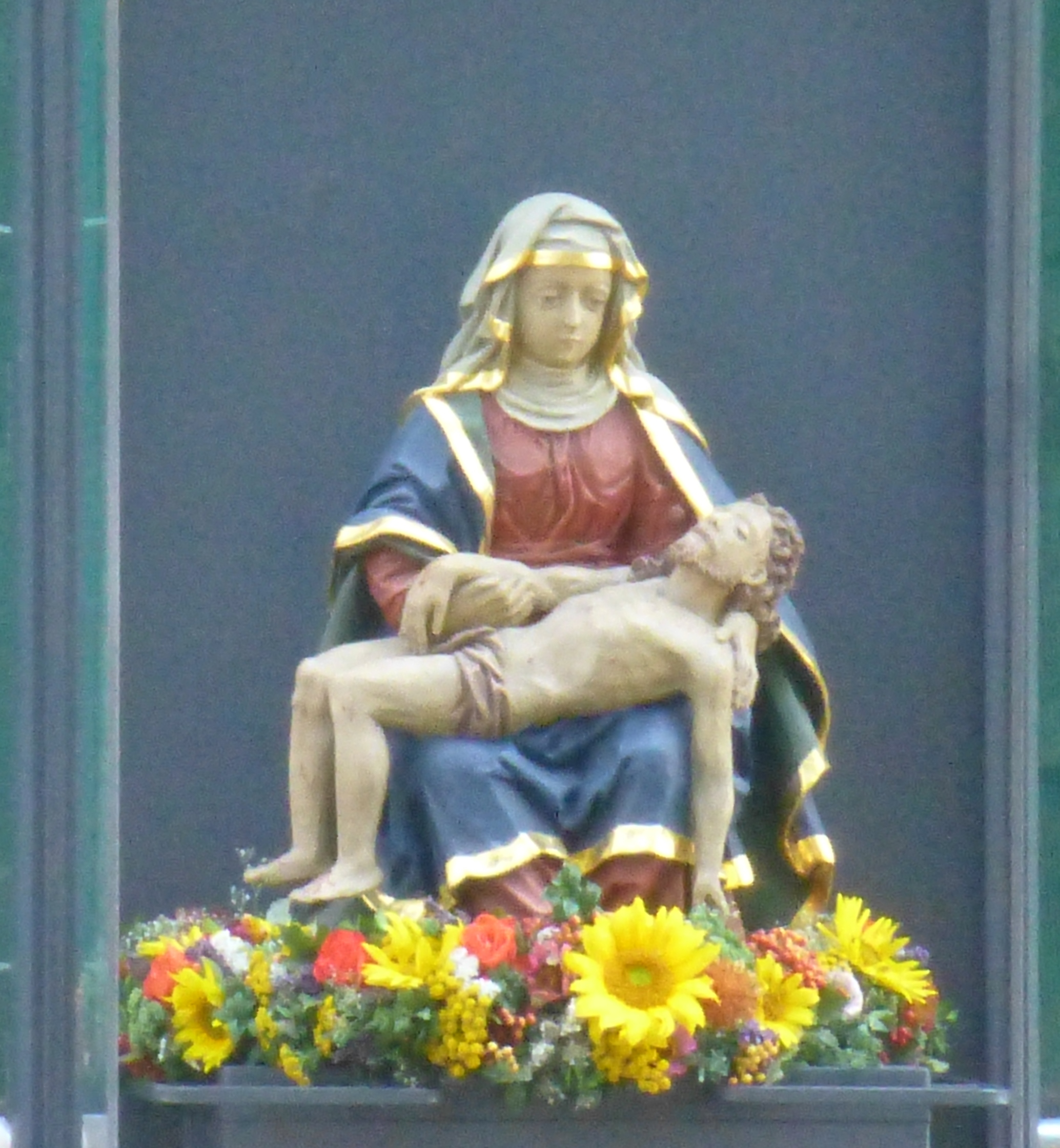 Etzelsbach Grace picture 01